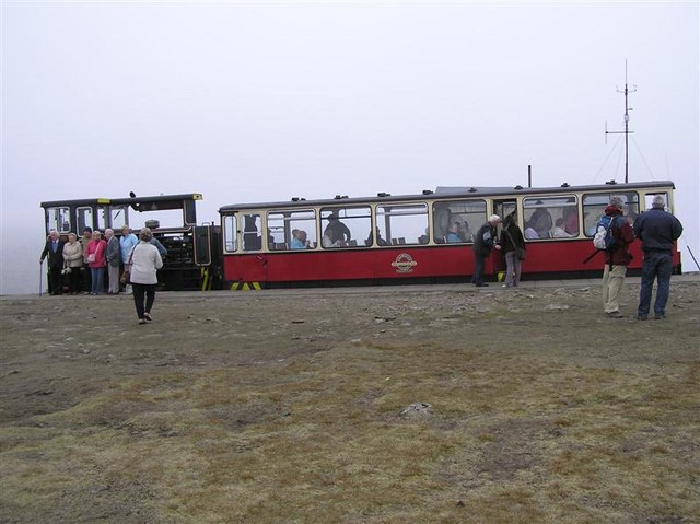 Stopped at Clogwyn Station, Snowdon